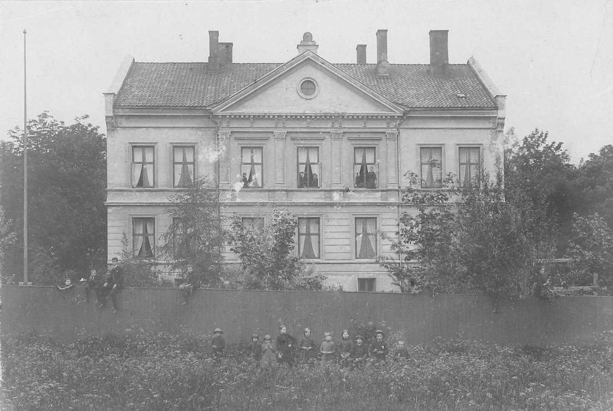 Depicted place: Det Ankerske Waisenhus